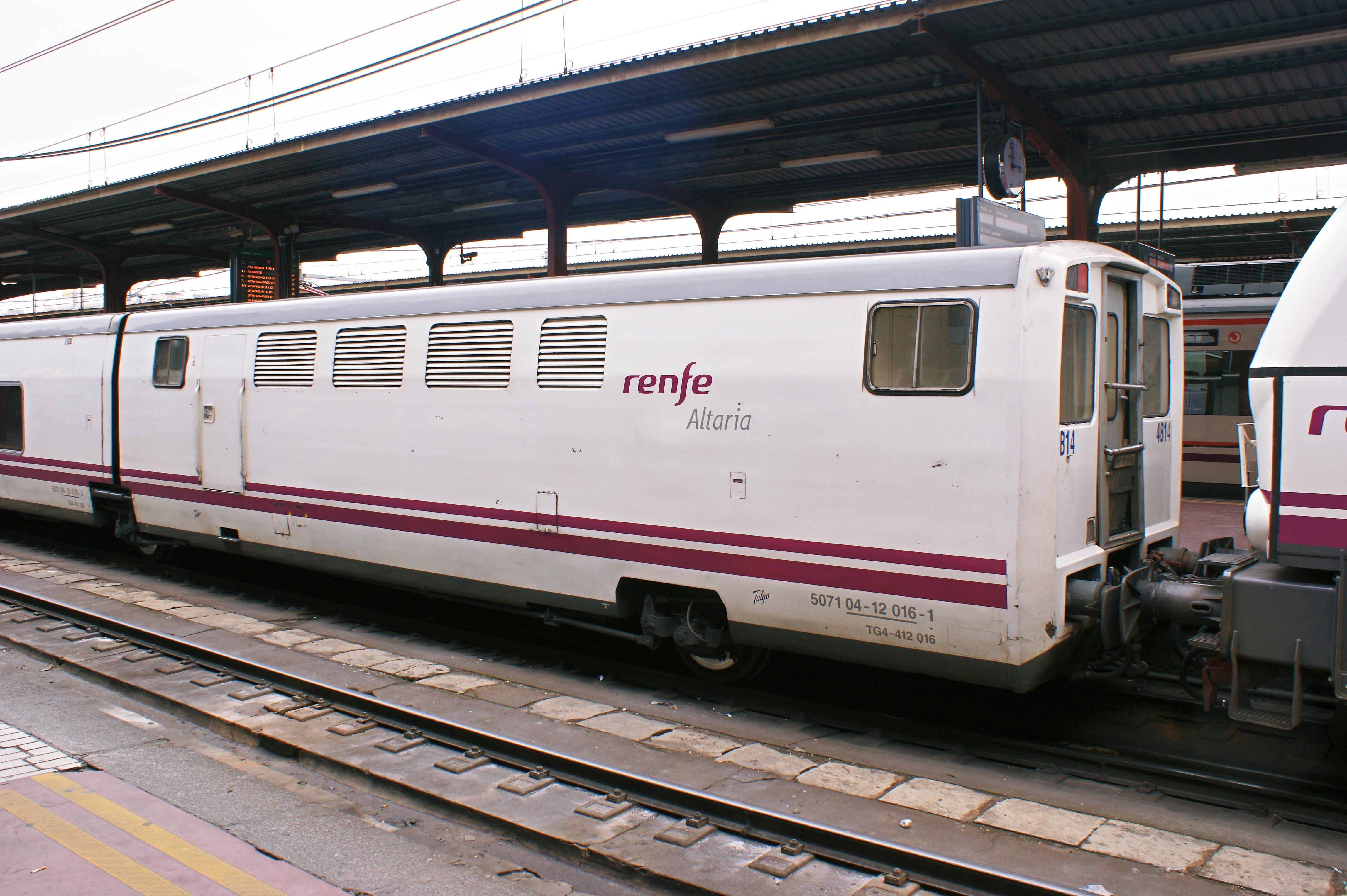 Talgo Altaria generator car, Charmartin 4/10.